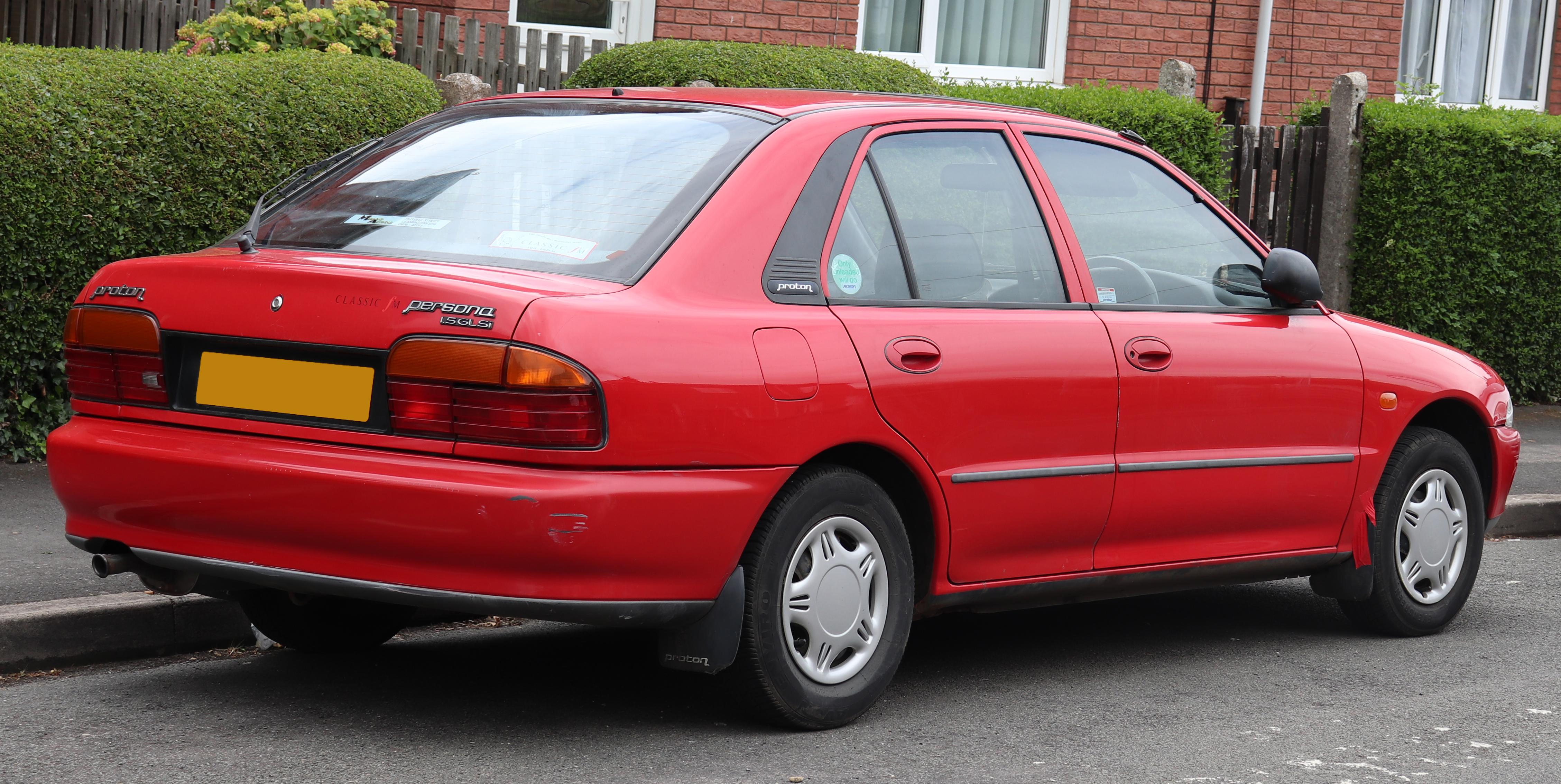 1994 Proton Persona GLSi 1.5 Rear Taken in Leamington Spa